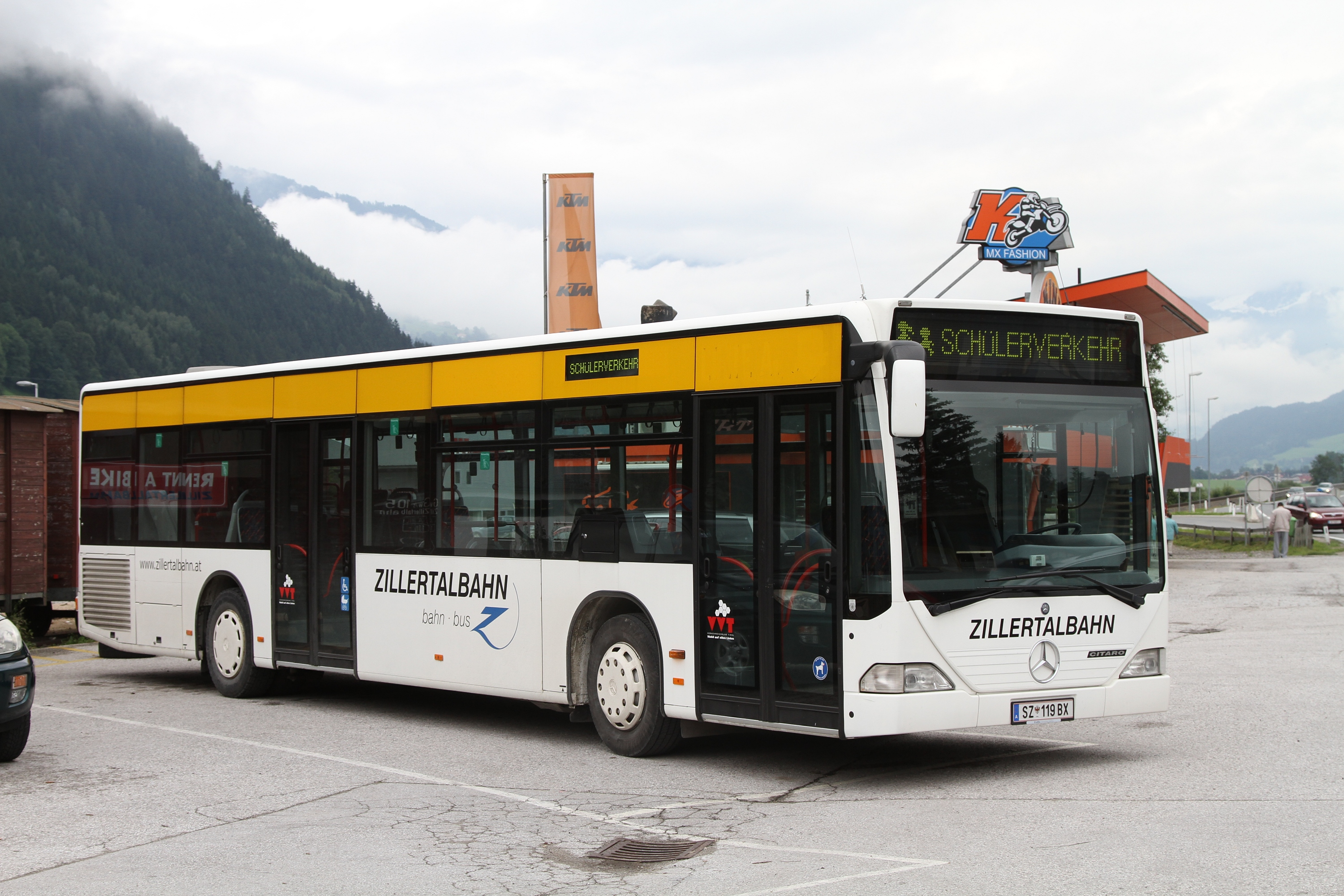 Mercedes Citaro bus of the Zillertalbahn at Uderns.